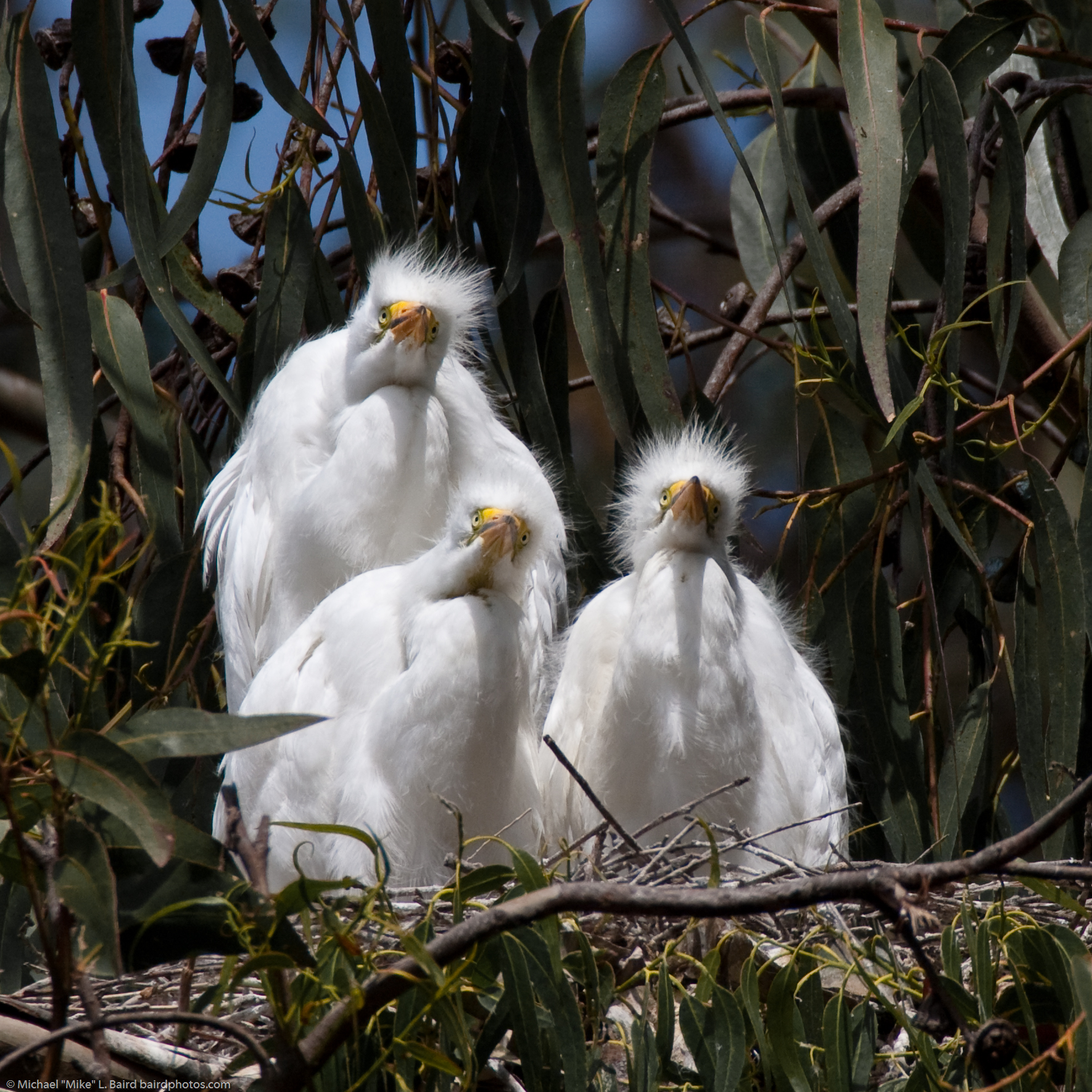 Great Egret (Ardea alba) nest with three chicks at the Morro Bay Heron Rookery at Fairbanks Point, just north of Windy Cove and the Museum of Natural History, Morro Bay, CA.